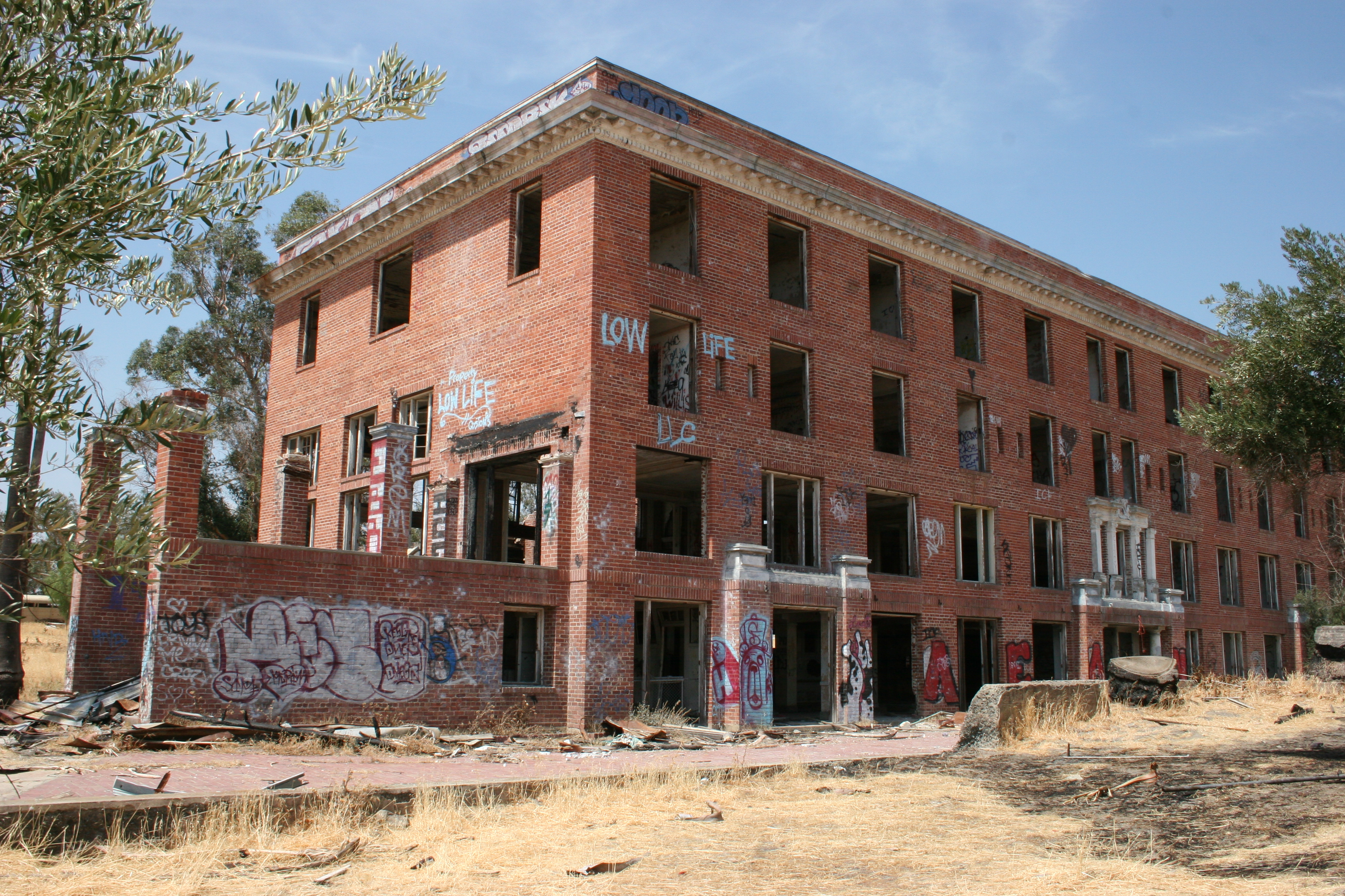 Byron Hot Springs Hotel, August 2008. This Hotel was part of a Resort frequented by Hollywood-stars and top athletes. Later it became Camp Tracy, a interrogation facility in WWII.